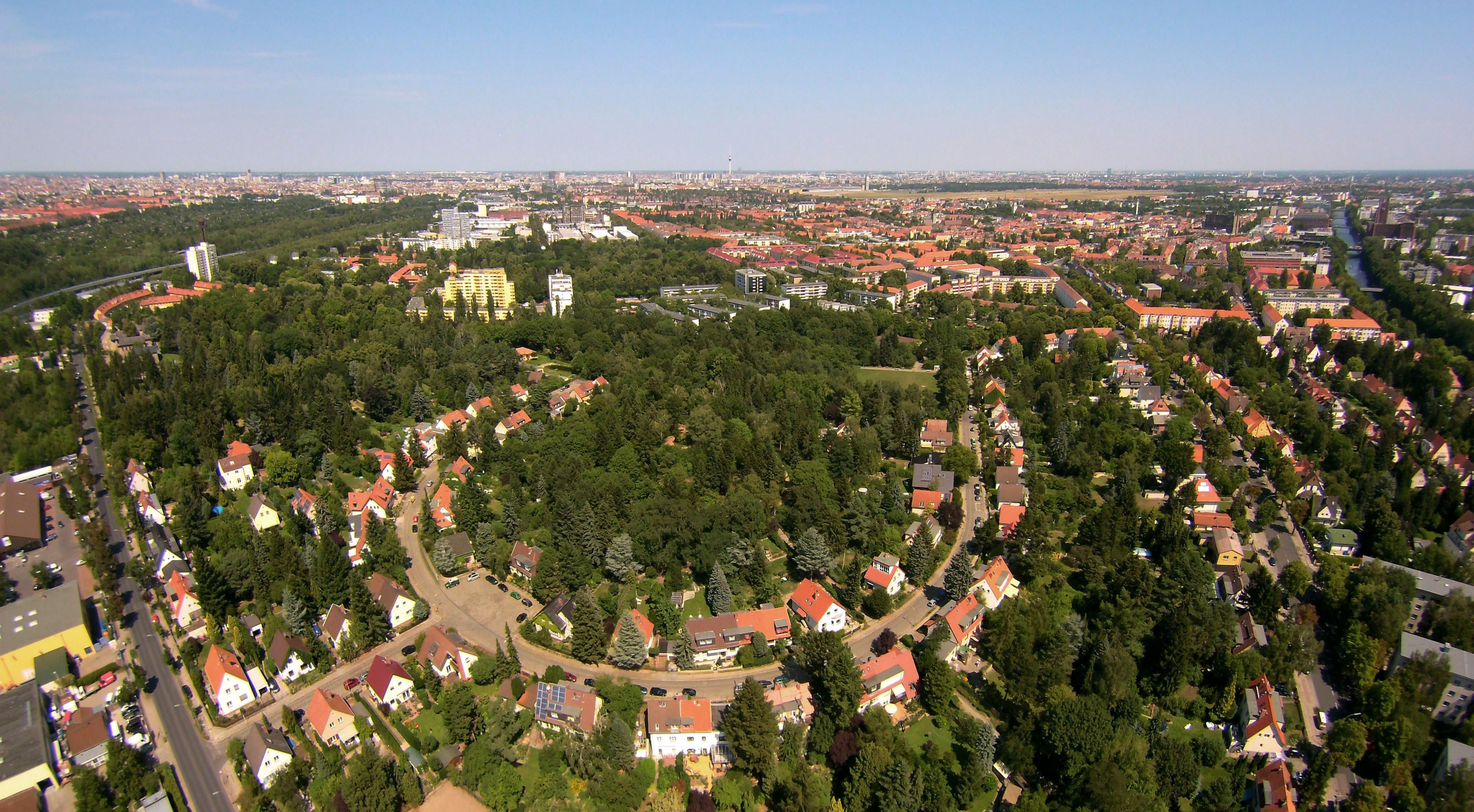 Aerial photography of Marienhöhe (triangulation point Rauenberg) in Tempelhof, Berlin, looking North-northeast (20°) towards some 8 km (5 mi.) distant St. Mary's Church and the Fernsehturm Berlin at Alexanderplatz